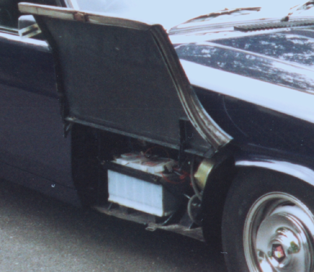 Wheelhouse of a Bristol 603